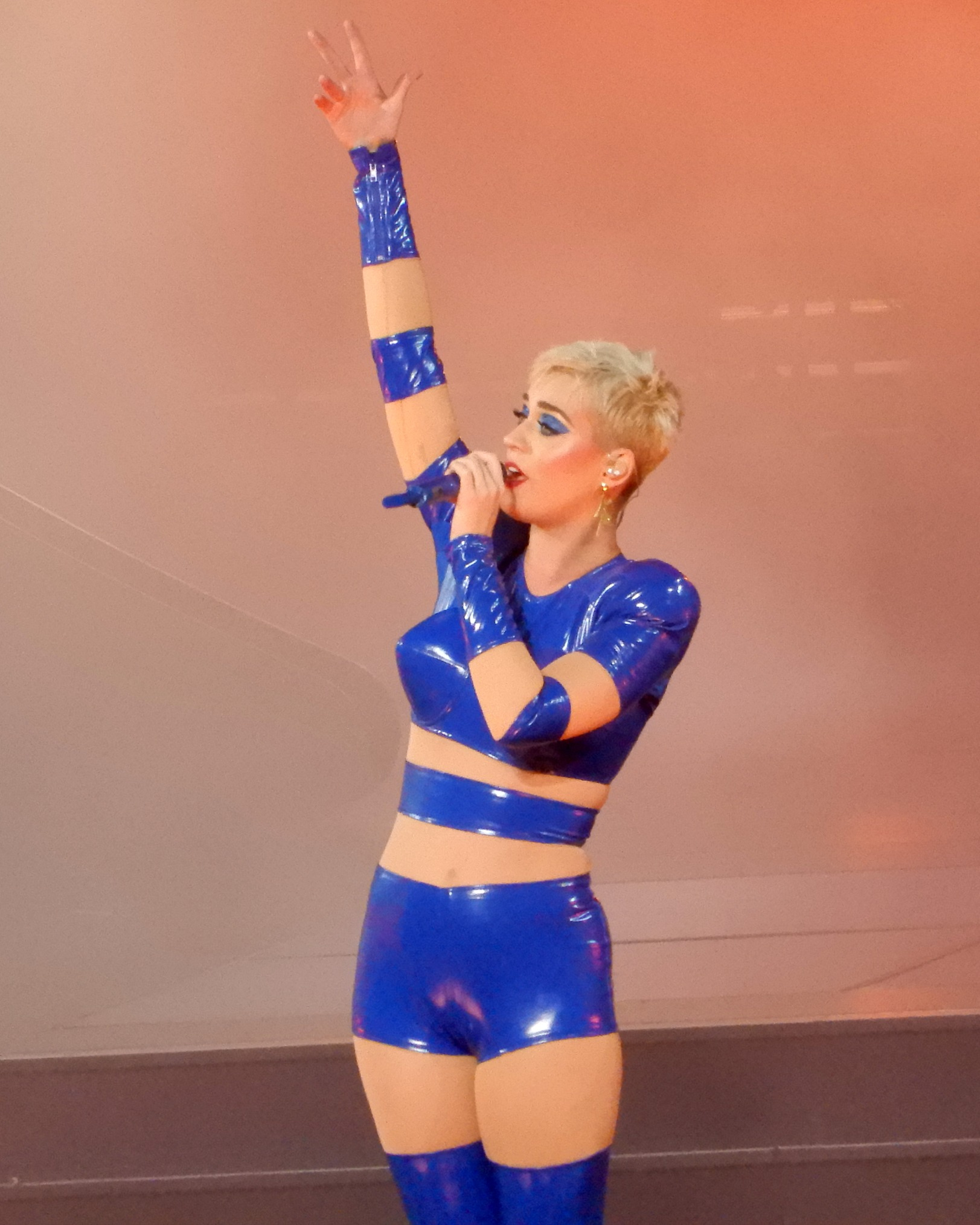 Katy Perry at Madison Square Garden